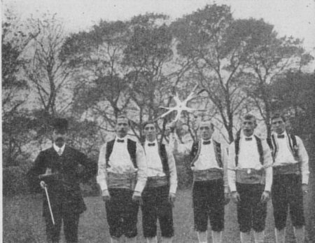 Royal Earsdon sword dancers in 1910 The Royal Earsdon sword dances, from the village of Earsdon, Northumberland (although now in North Tyneside), England, in around 1910.